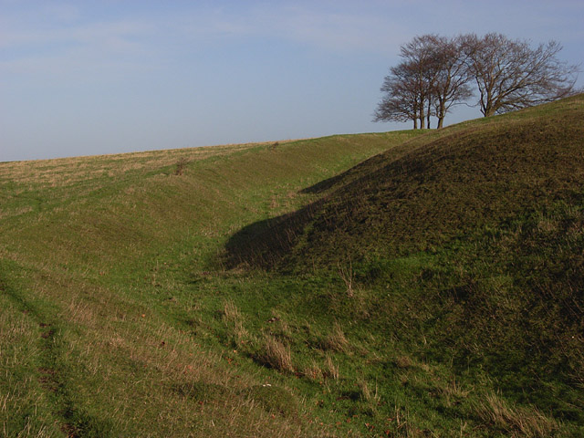 Fort earthworks, Ladle Hill Ladle Hill is said to be a "unique example of an unfinished hill-fort" (quoted from Megalithic Portal ). It consists of a lot of untidy mounds. This is the ditch on its western side.